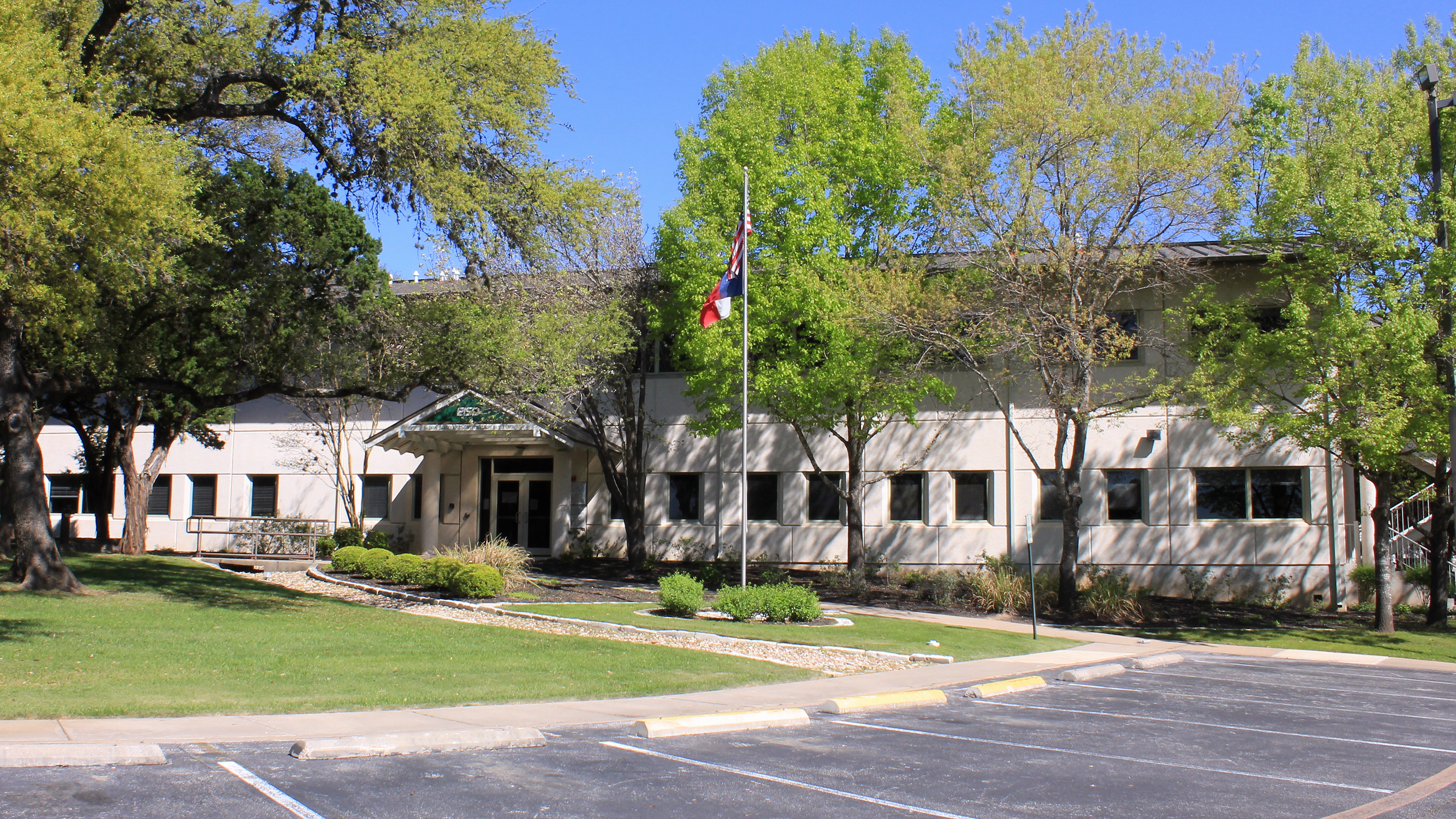 Eanes ISD Administration Building